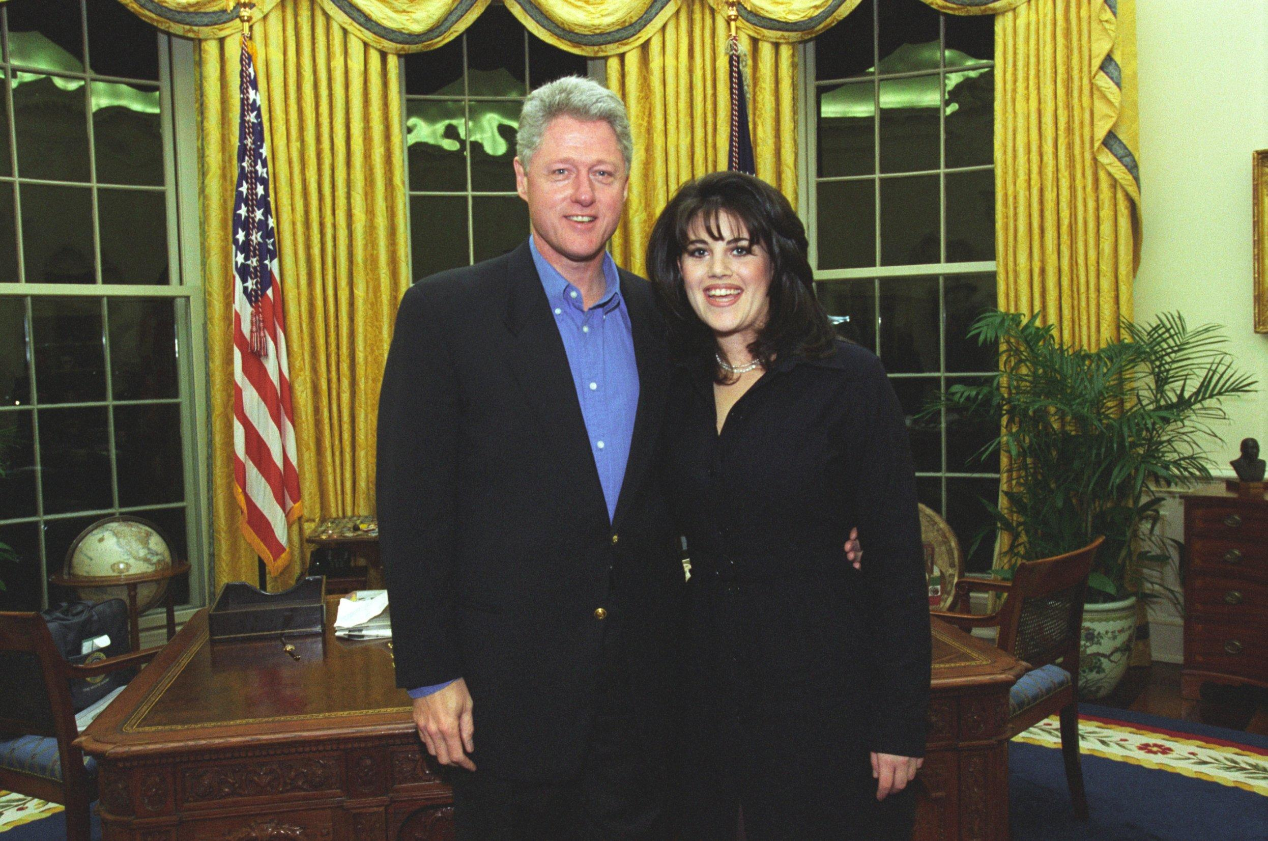 White House Photograph Office, “Photographs of Monica Lewinsky at the White House During November 1995 through March 1997,” Clinton Digital Library, accessed March 23, 2018, Title: Photographs of Monica Lewinsky at the White House During November 1995 through March 1997 Creator(s): White House Photograph Office Date: November 1995-March 1997 Location: White House Color: Color and Black and White Is Part Of: Collection Finding Aid Identifier: 2014-0664-F Format: Adobe Acrobat Document Original Format: Photograph Print Access Rights: Unrestricted Provenance: Photographs of the White House Photograph Office | Photographs Relating to the Clinton Administration Publisher: William J. Clinton Presidential Library